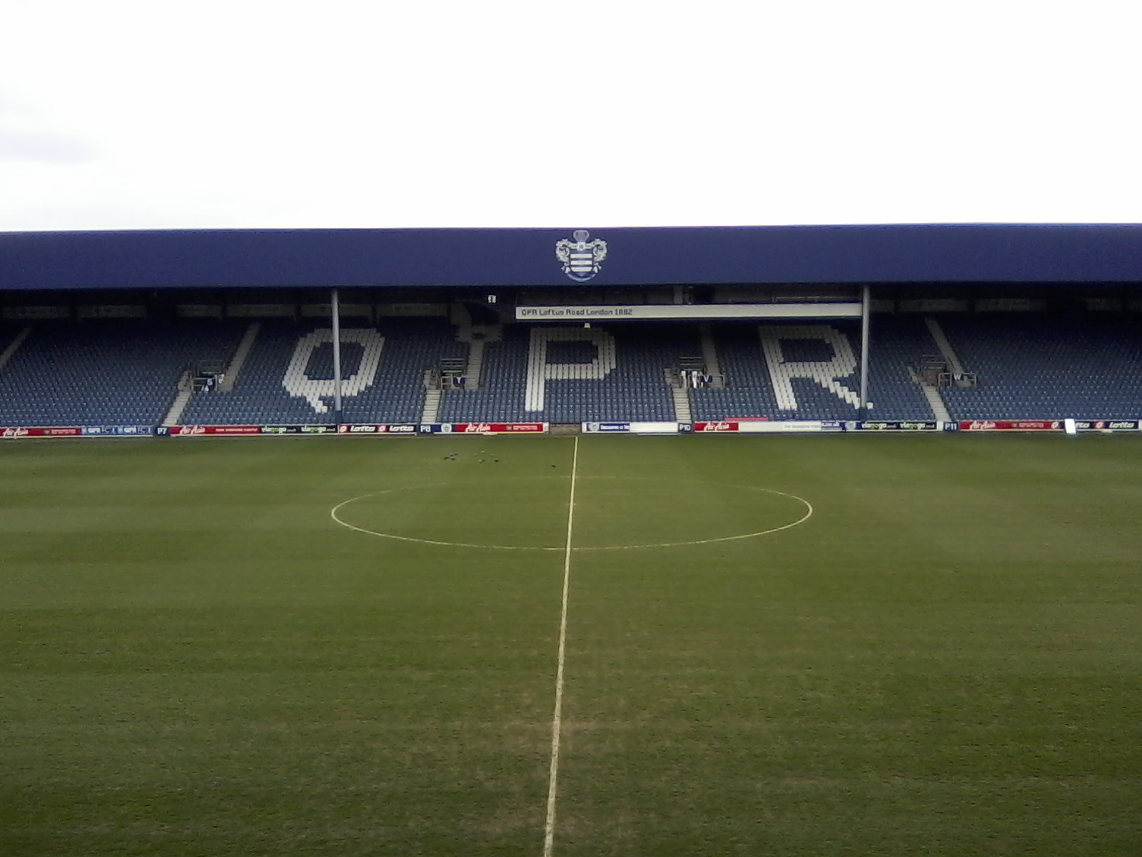 The Ellerslie Road Stand at Loftus Road